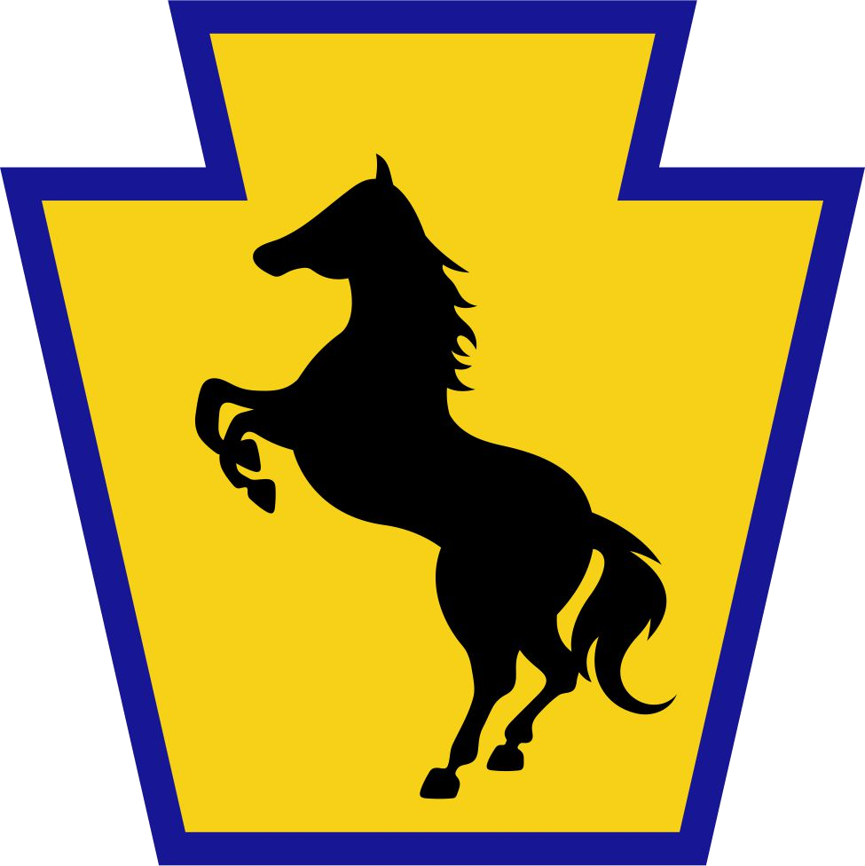 U.S. Army's 55th Maneuver Enhancement Brigade shoulder sleeve insignia (SSI)